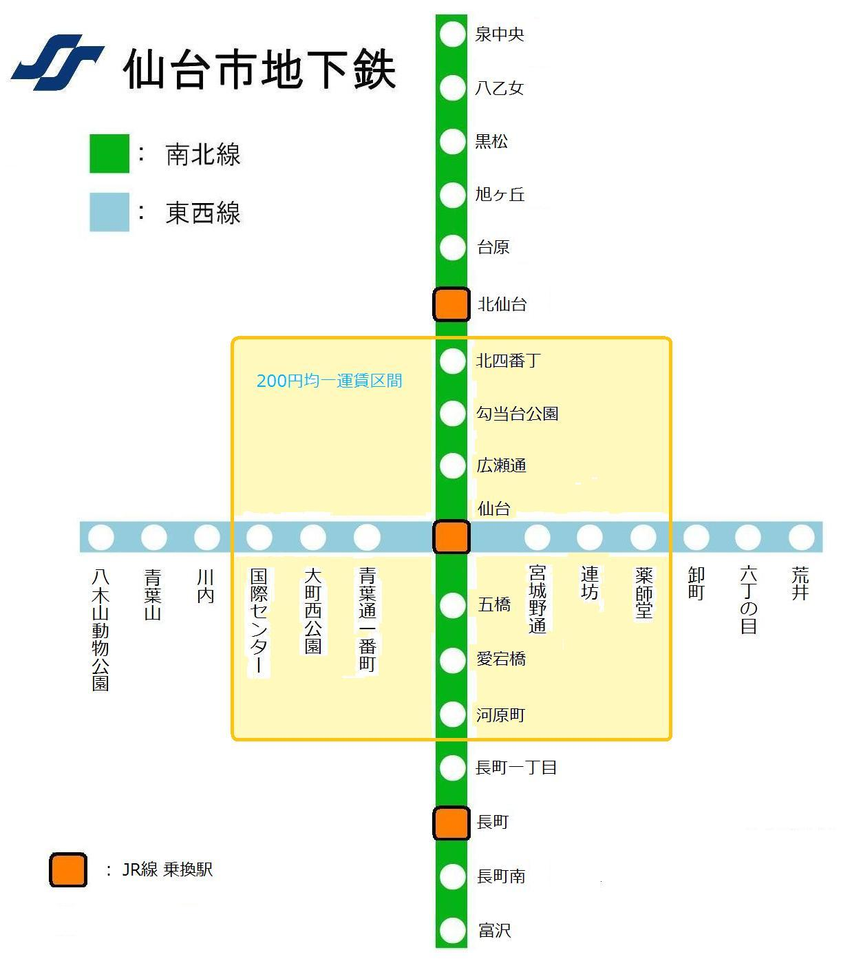 Route map of the Sendai Subway lines